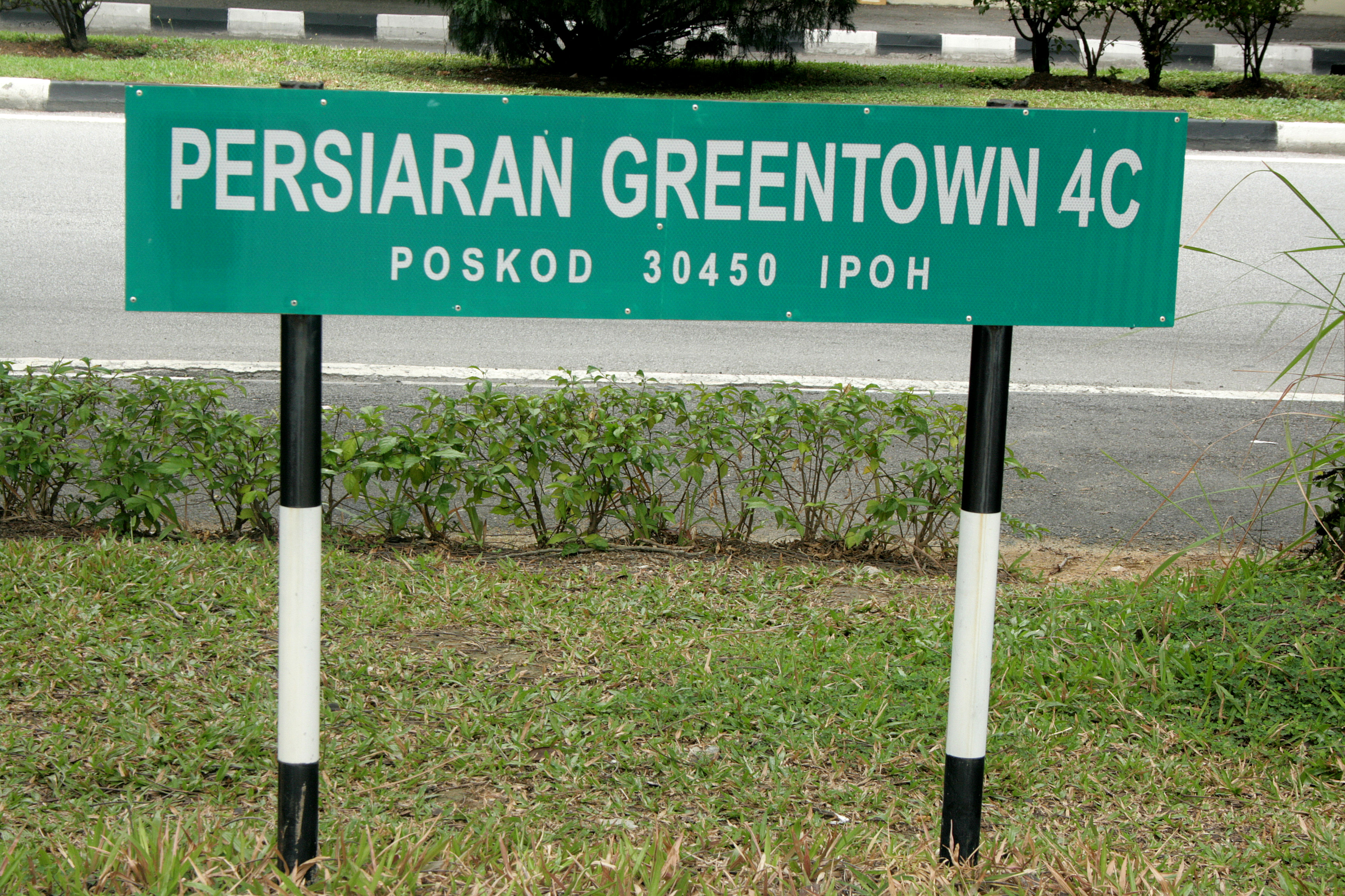 Malay signboard with English location name in Ipoh, Perak, Malaysia.